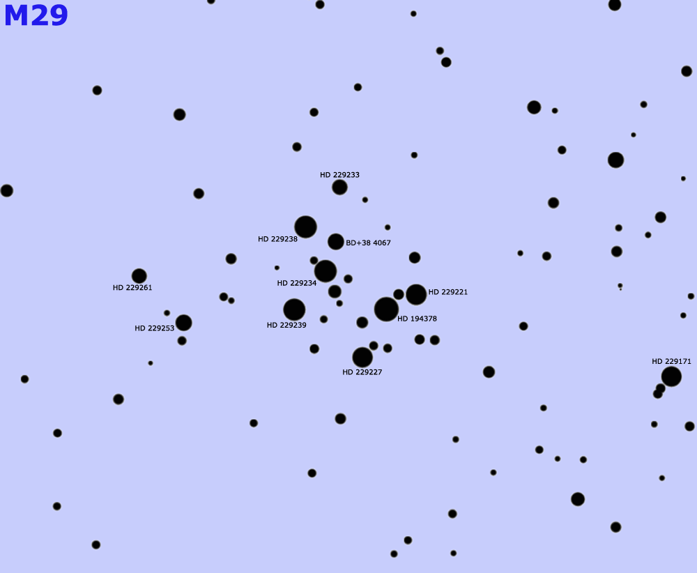 Detailed map of Messier 29